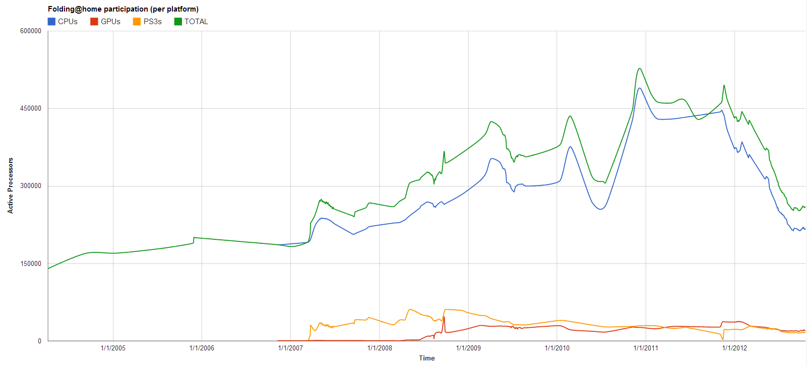 This is a graph of the Folding@home distributed computing project's participation per client between April 8, 2004 and October 20, 2012. The graph shows active processors, broken down into Windows, Linux, and Mac CPUs, GPUs (combining those from Nvidia and ATI), as well as active PlayStation 3s, along with a total. As the Folding@home website does not display a graph of the project's statistics over time, nor is there a third-party site that does so, the data was gathered in a collaborative effort from historical information around the Internet. Not all points could be found; this graph draws a smooth line between them. Please see this thread about this graph.